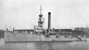 USS Wilmington Source: [1] URL: [2] Believed based on apparent age.